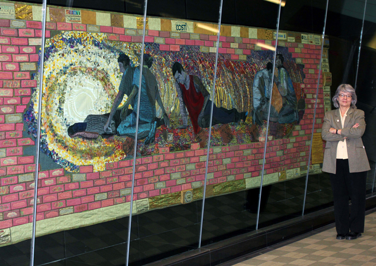 Breaking Ground The Hogg’s Hollow Disaster, 1960 (2000, hung in 2010), a tapestry marking the 1960 Hoggs Hollow Disaster. The 7' x 20' hangs at the York Mills subway station in Toronto.